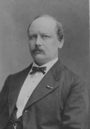 Danish inventor, Rasmus Malling-Hansen, 1835-1890. Photo from 1877